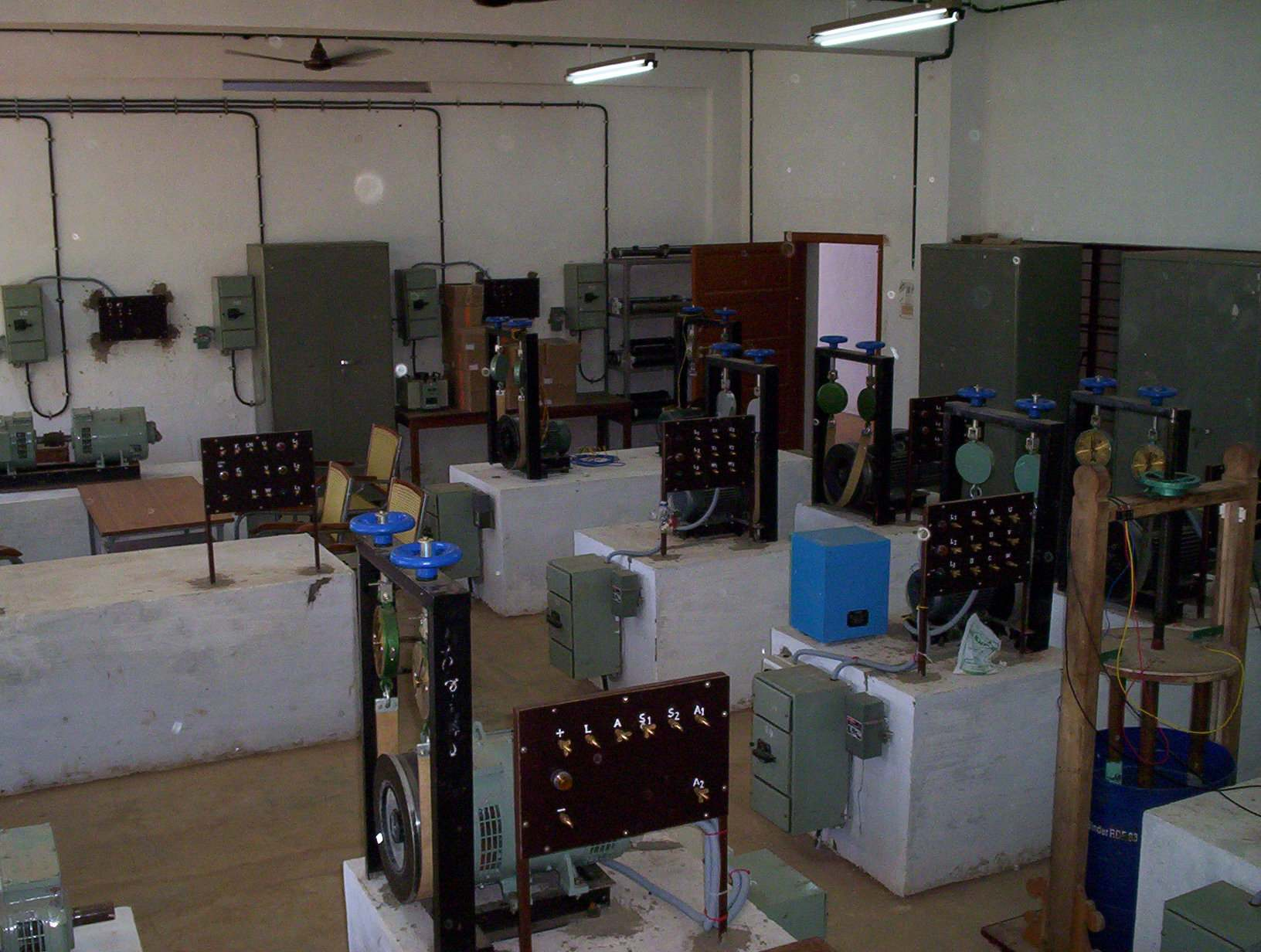 GEC Idukki Electrical machines lab